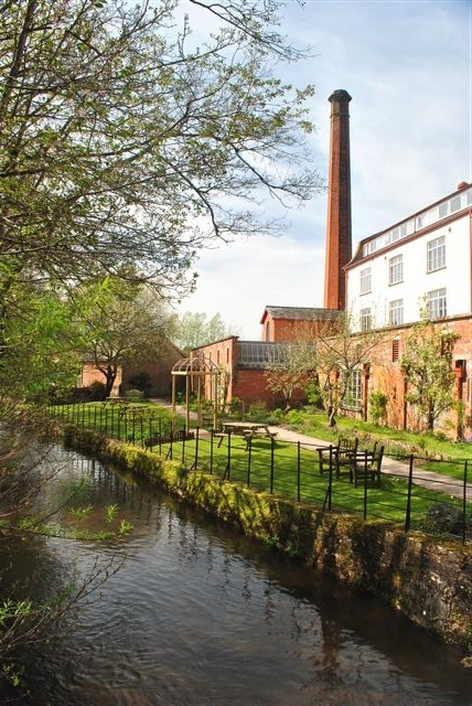 Photo taken from the small bridge that crosses the stream and the and the view is looking to the right towards the entrance of the mill.